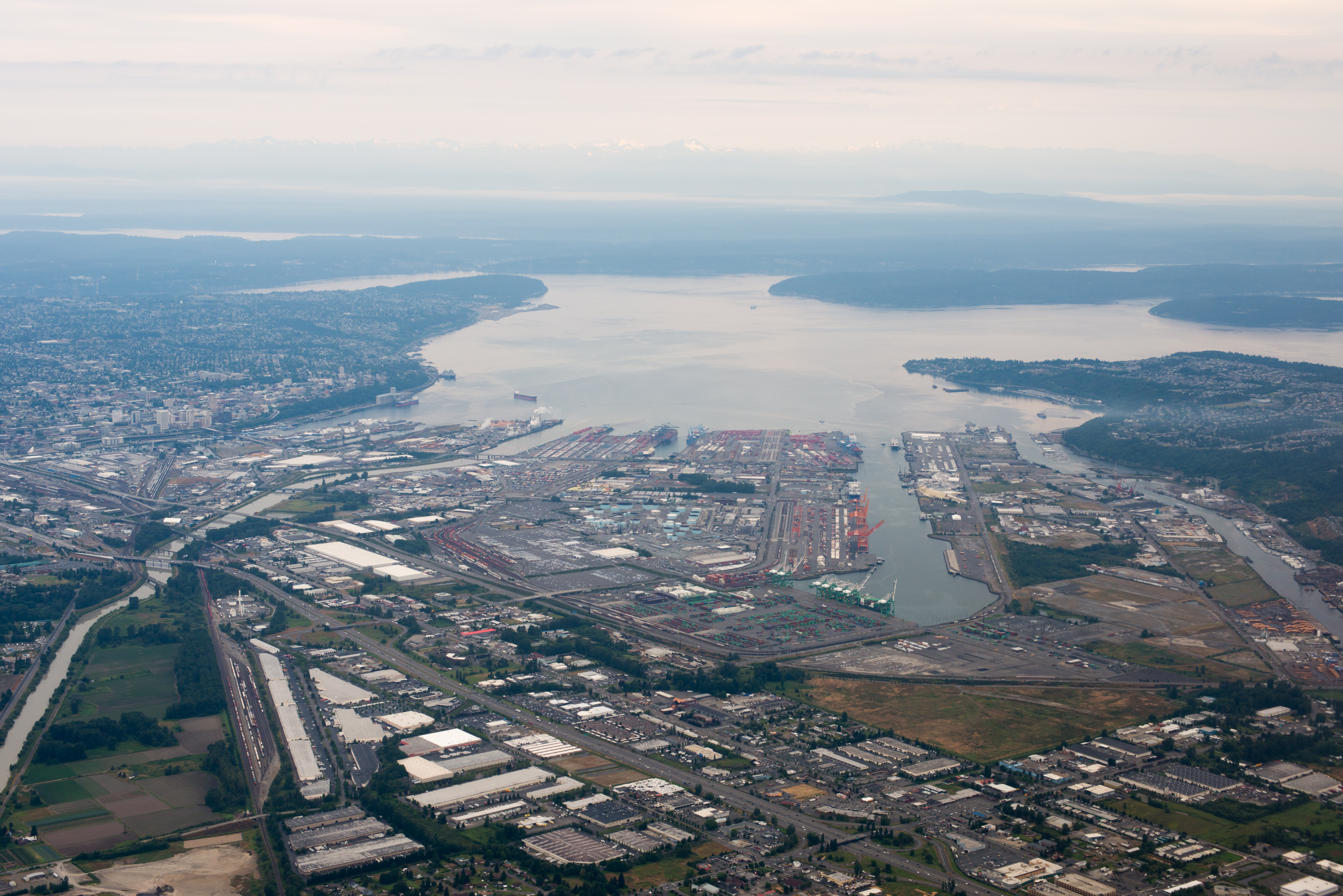 Port of Tacoma, where the Puyallup River (left) feeds into Commencement Bay. Harbor cranes line artificial waterways. Interstate highway I-5 crosses in the foreground, passing over Puyallup River on the Puyallup River Bridge. Behind it three more bridges cross, route 509, Lincoln Ave, and E 11th St. Downtown Tacoma is at upper-left. Across the bay is Vashon Island on right and the Olympic Penninsula on left in distance.